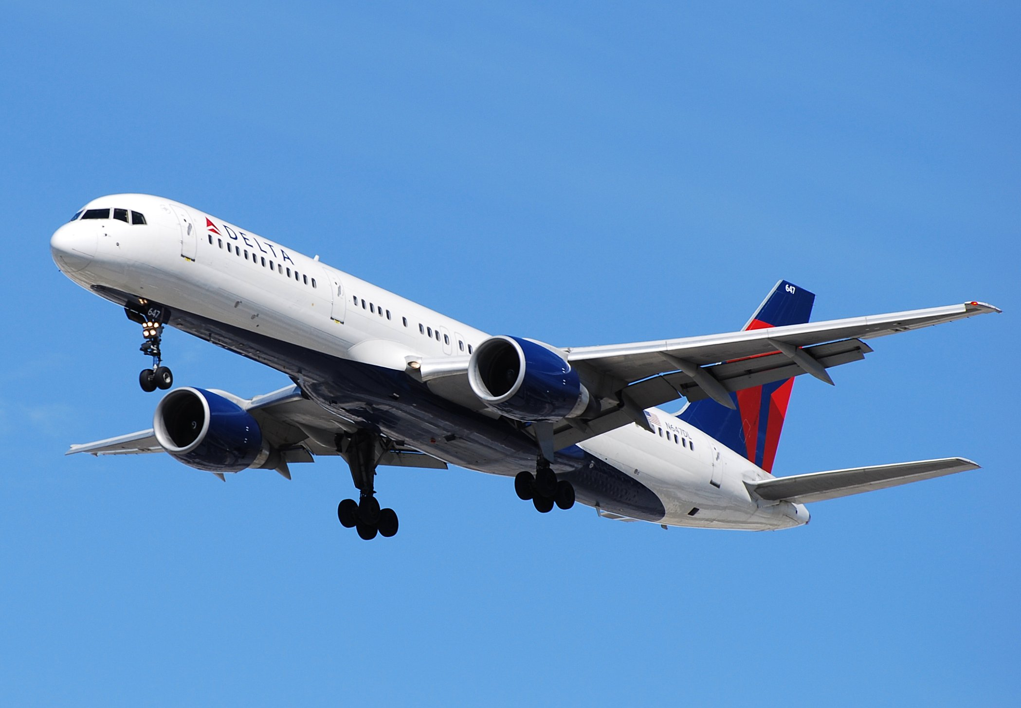 Las Vegas - McCarran International (LAS / KLAS) USA - Nevada, 9-12-2010 Photo: TDelCoro